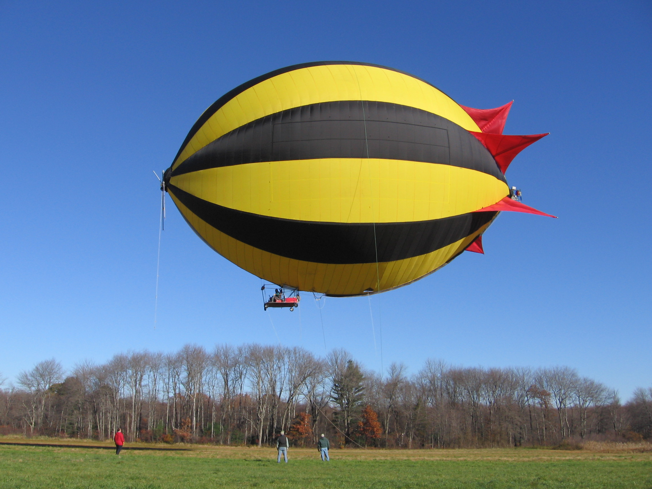 View of the first flight of the Skyacht Personal Blimp.